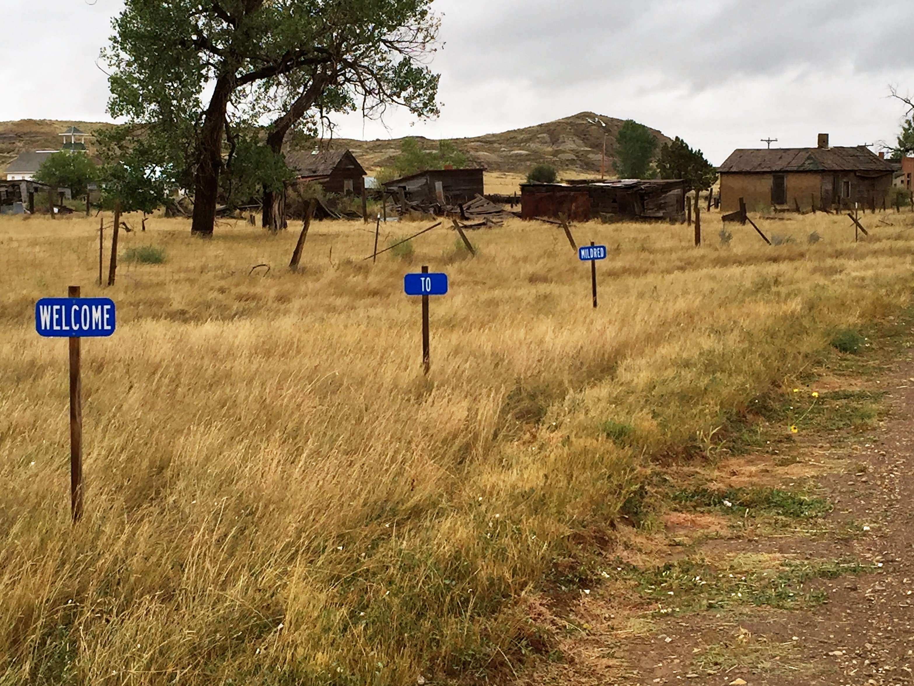 This is the "Welcome to Mildred" sign that greets travelers who visit the ghost town in Montana.